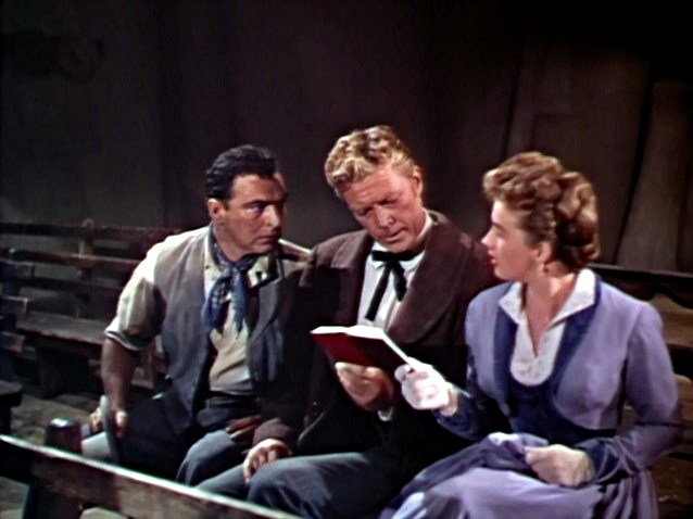 This image is a screenshot from a public domain trailer for the 1951 film, Apache Drums. Trailers for movies released before 1964 are in the Public Domain because they were never separately copyrighted.